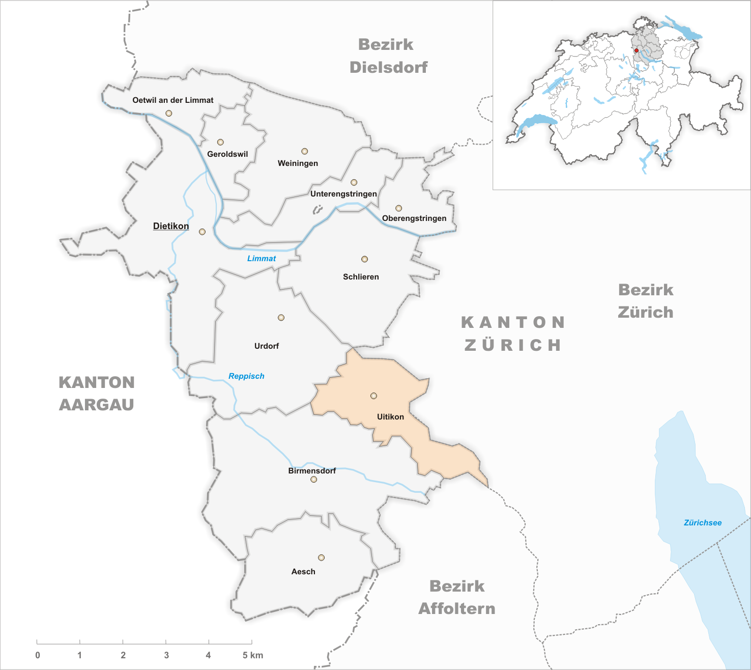 Municipality Uitikon